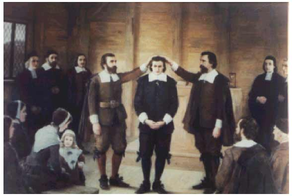 Nineteenth-century painting depicting the ordination of Thomas Carter (1608-168) as minister of Woburn, Massachusetts in 1642. The characters represented in the painting are as follows: Beginning at the left (standing) is John Cotton, Minister of the First Church of Boston; Richard Mather, Minister of the First Church of Dorchester; John Elliot, Apostle to the Indians from the FIrst Church of Roxbury; Capt. Edward Johnson, one of the founders of both the church and town of Woburn; Thomas Carter, one of the lay members of the church; John Wilson, Minister of the First Church of Charlestown; and finally, a visiting minister, unnamed. Seated on the bench with his hat beside him is Increase Nowell, Magistrate from Charlestown. The others are members of the church. The painting is on display at the Winn Memorial Library in Woburn.